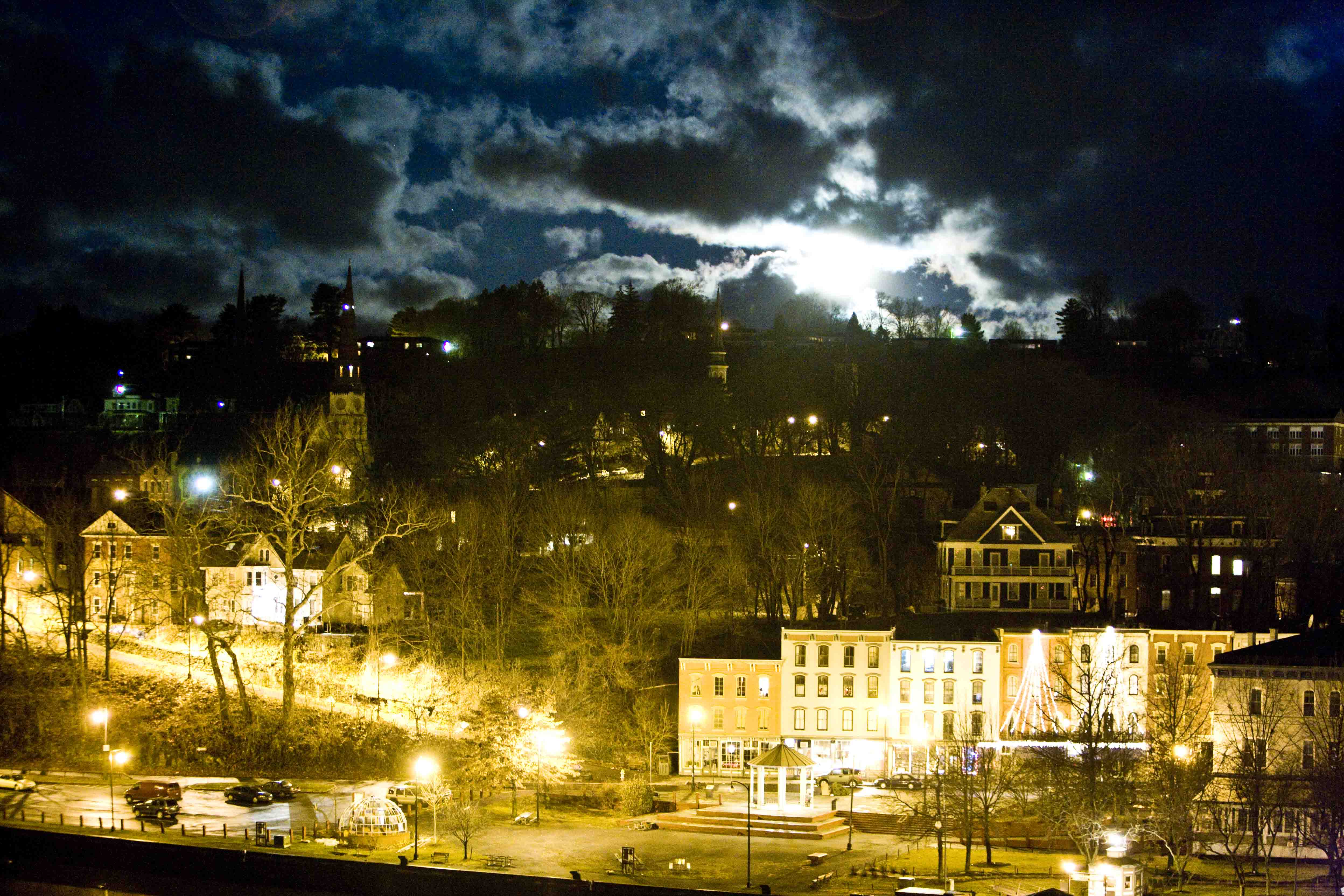 A view of the strand in the old town of Rondout NY at night in the light of a full moon